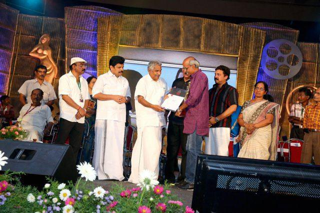 Kerala State Film Award Ceremony 2013 in Thiruvananthapuram